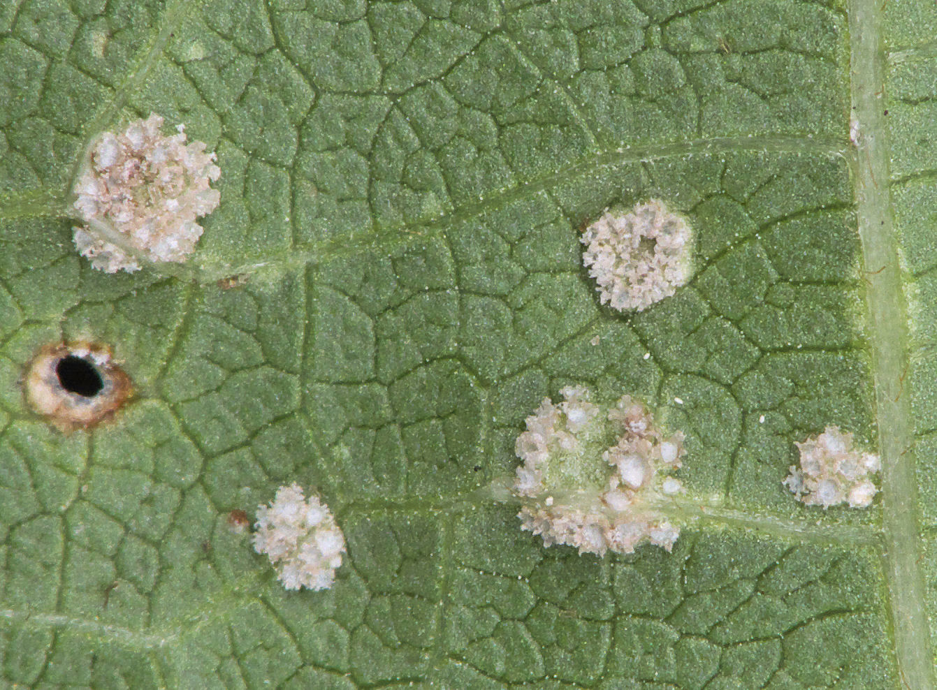 Uromyces appendiculatus var. appendiculatus aecidia at Phaseolus vulgaris